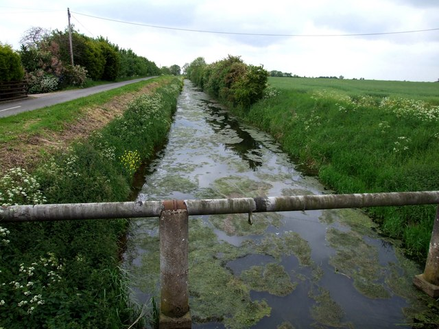 Vanguard Bridge, Keal Cotes, near to Keal Cotes, Lincolnshire, Great Britain. From the bridge, a view of the East Fen Catchwater Drain.